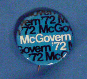 Ten McGovern For President Buttons - Pinback Pins 1972